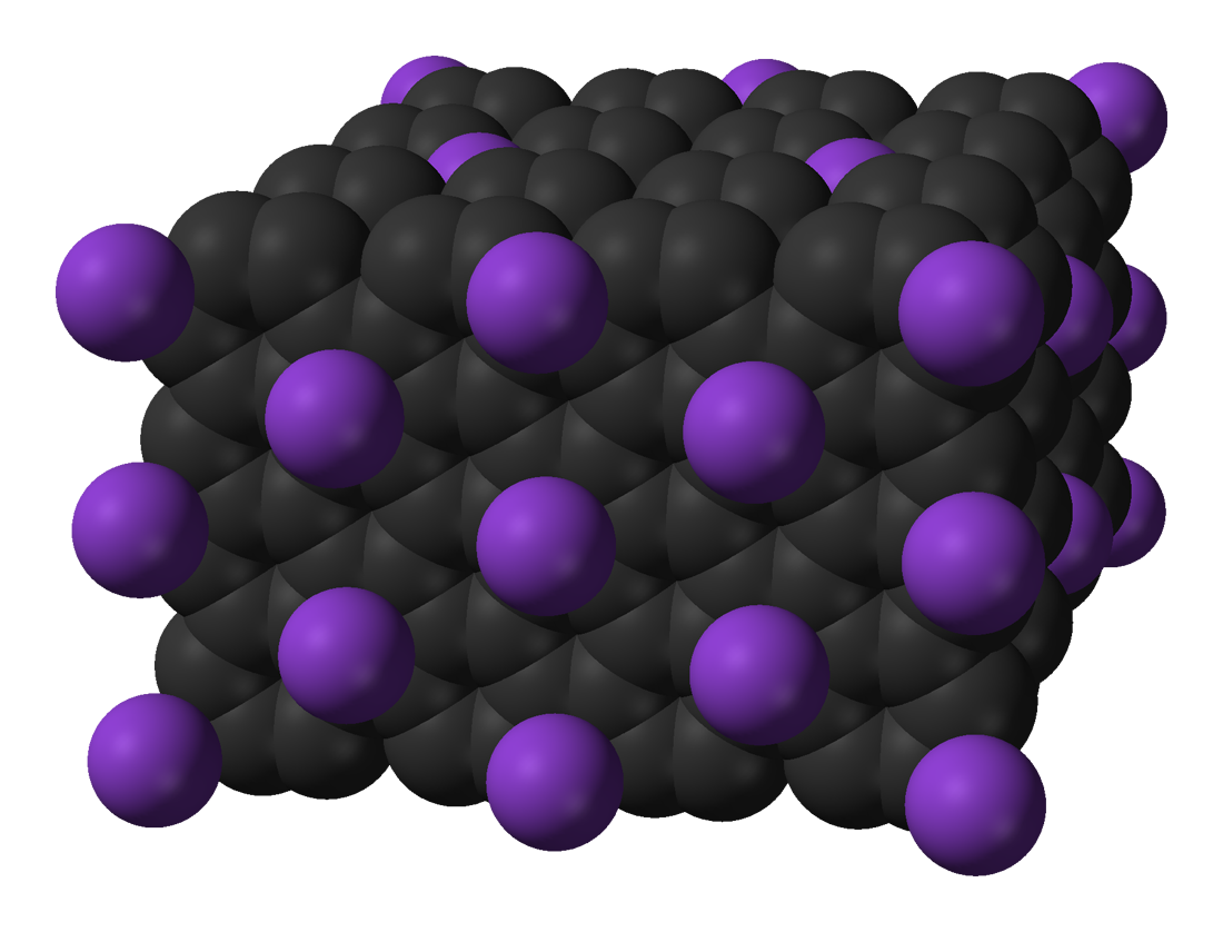 Space-filling model part of the crystal structure of potassium graphite, KC8. X-ray crystallographic data from P. Lagrange, D. Guerard, A. Herold (1978). "Sur la structure du composé KC8". Annales de Chimie: 143-159. Image generated in Accelrys DS Visualizer.